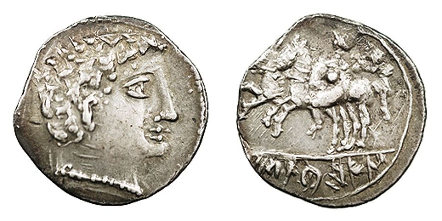 Denarius issued at Icalcusen, in the Southeast of the Iberian Peninsula.